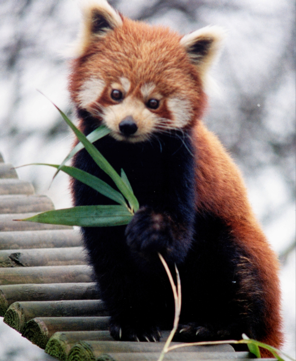 Ailurus fulgens or Red Panda in Aachen Zoo, Germany, summer 2002